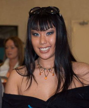 Avena Lee